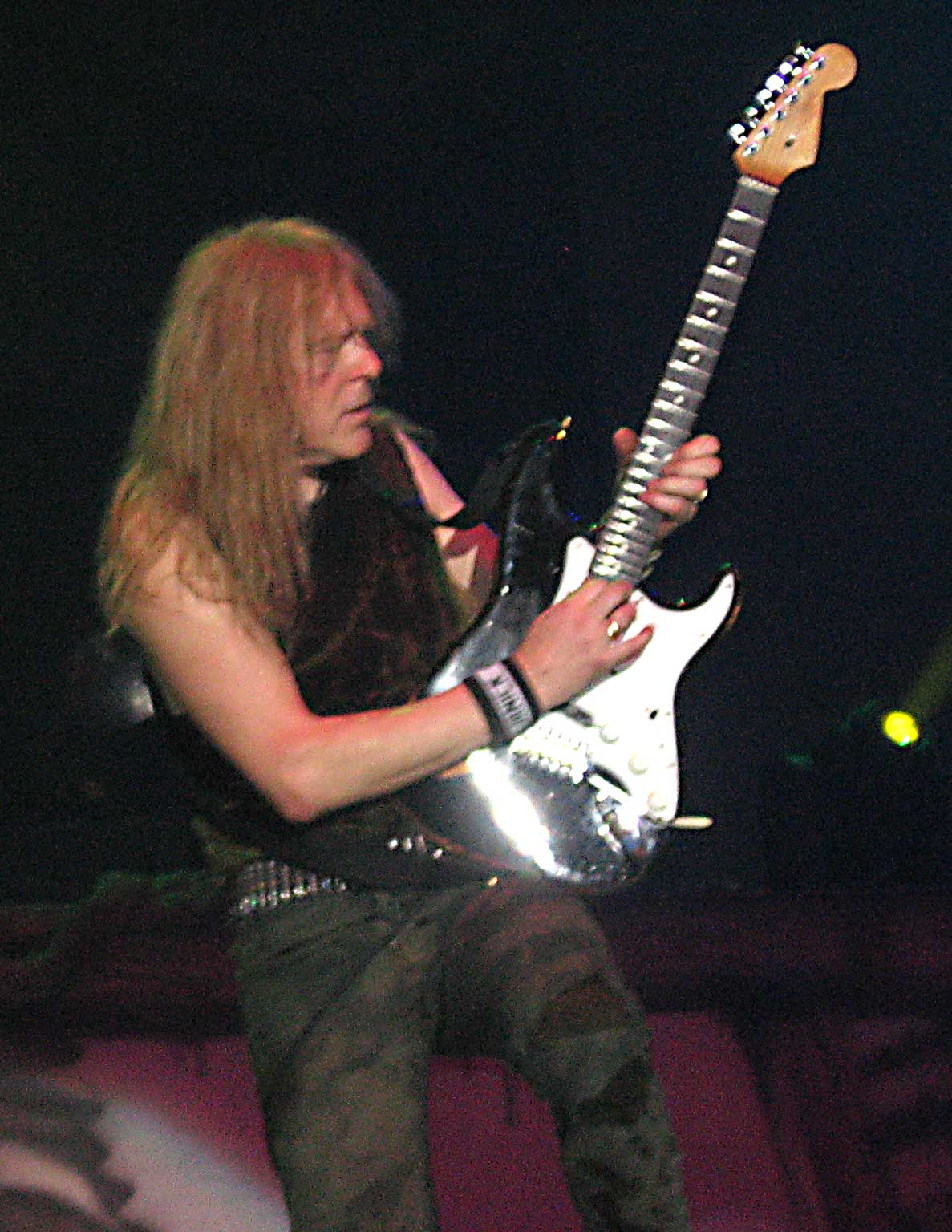 Janick Gers, Iron Maiden's guitarist, during a show in Barcelona (A Matter of Life and Death World Tour).